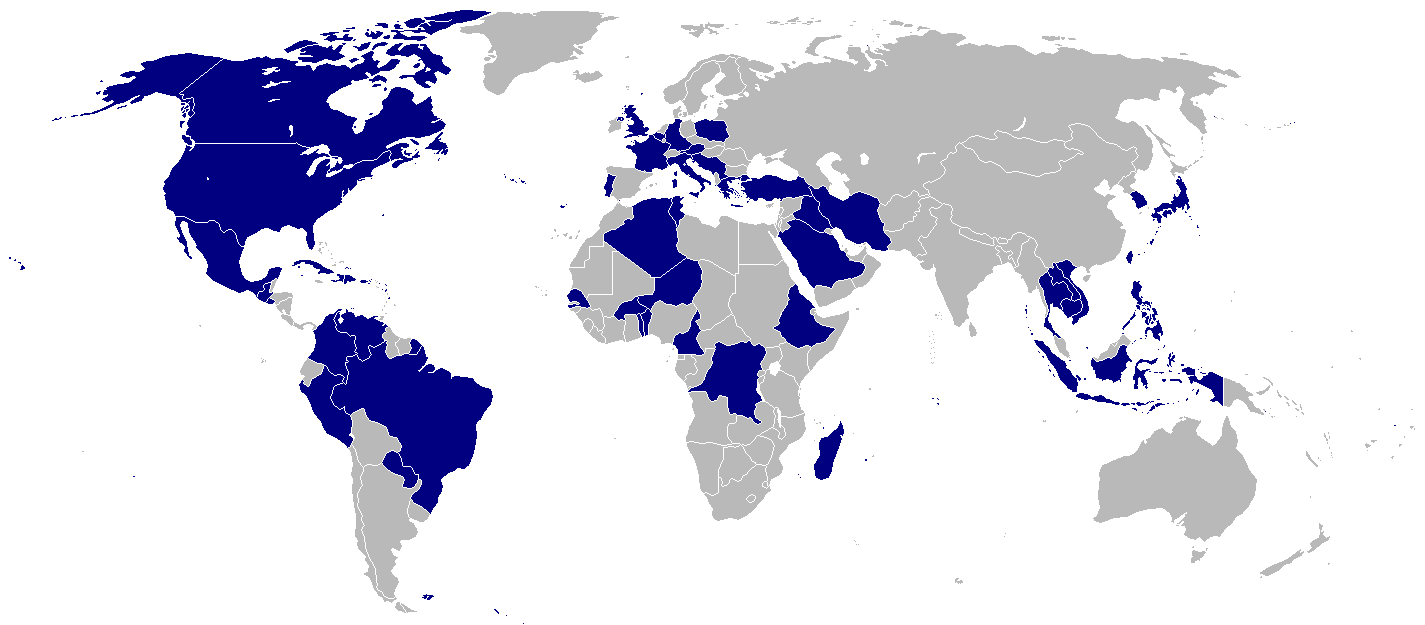 Operators of the M8 and M20 Greyhound armored cars.